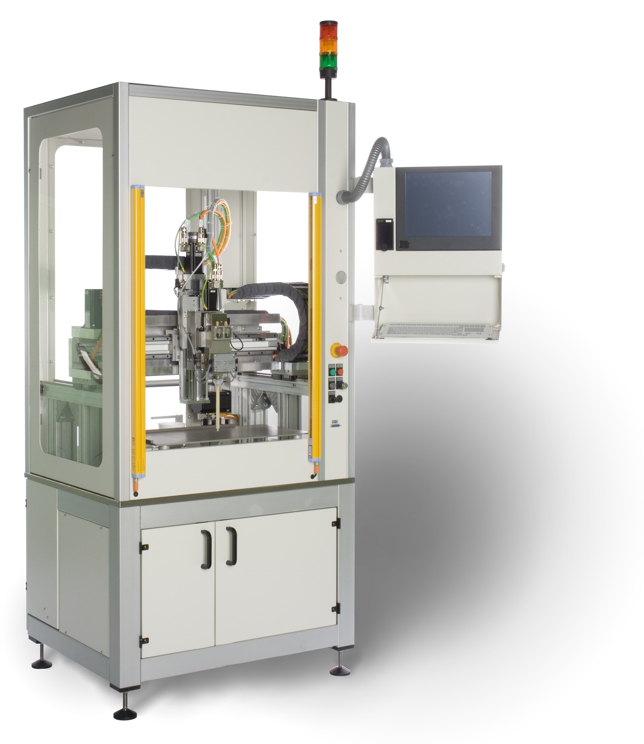 A CNC casting cell for automated casting of resin in complex movements